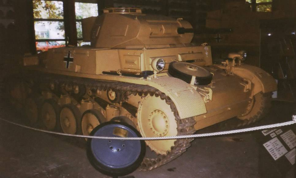 A Nazi WWII PzKpfw II Ausf A/C tank in the Panzermuseum in Munster